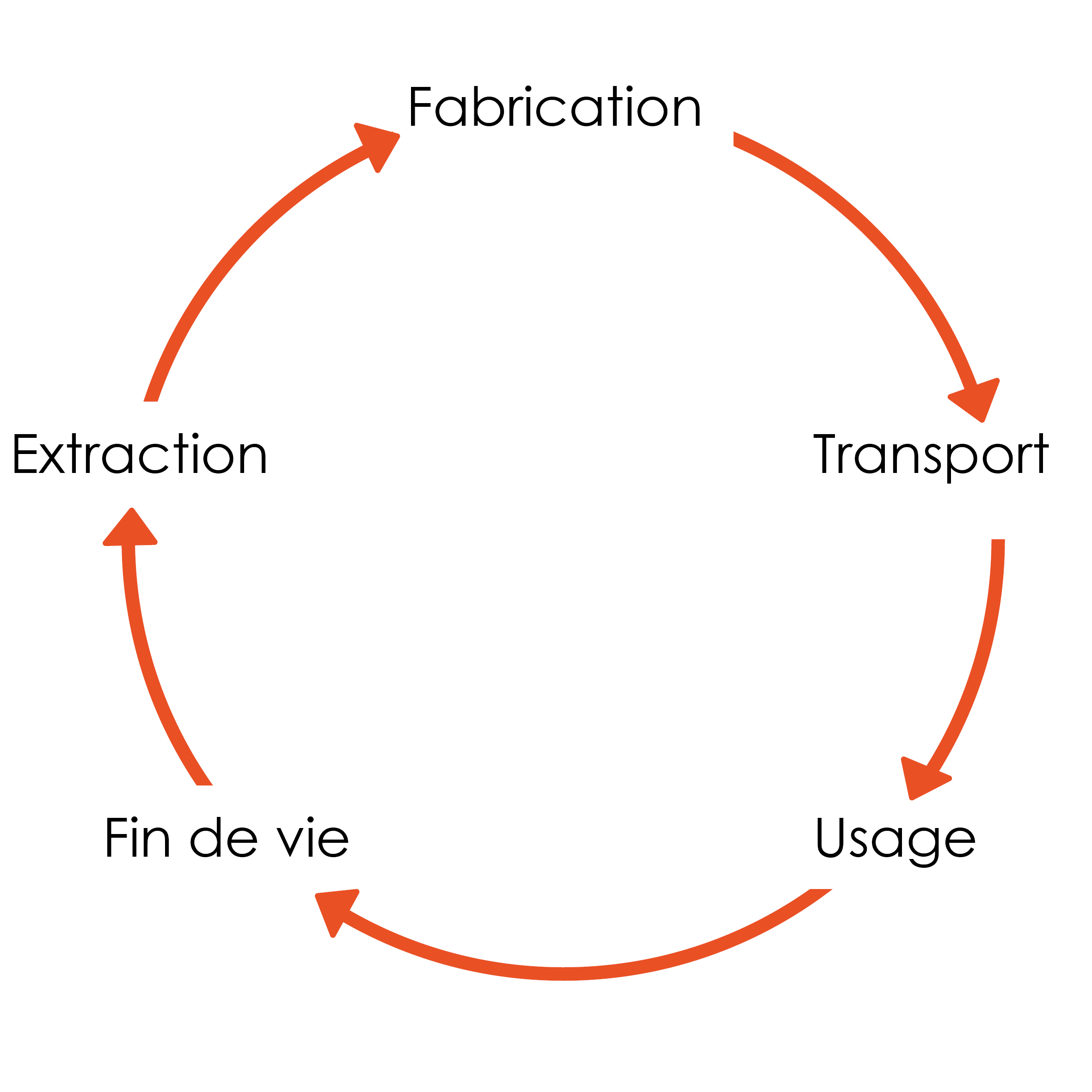 cycle de vie